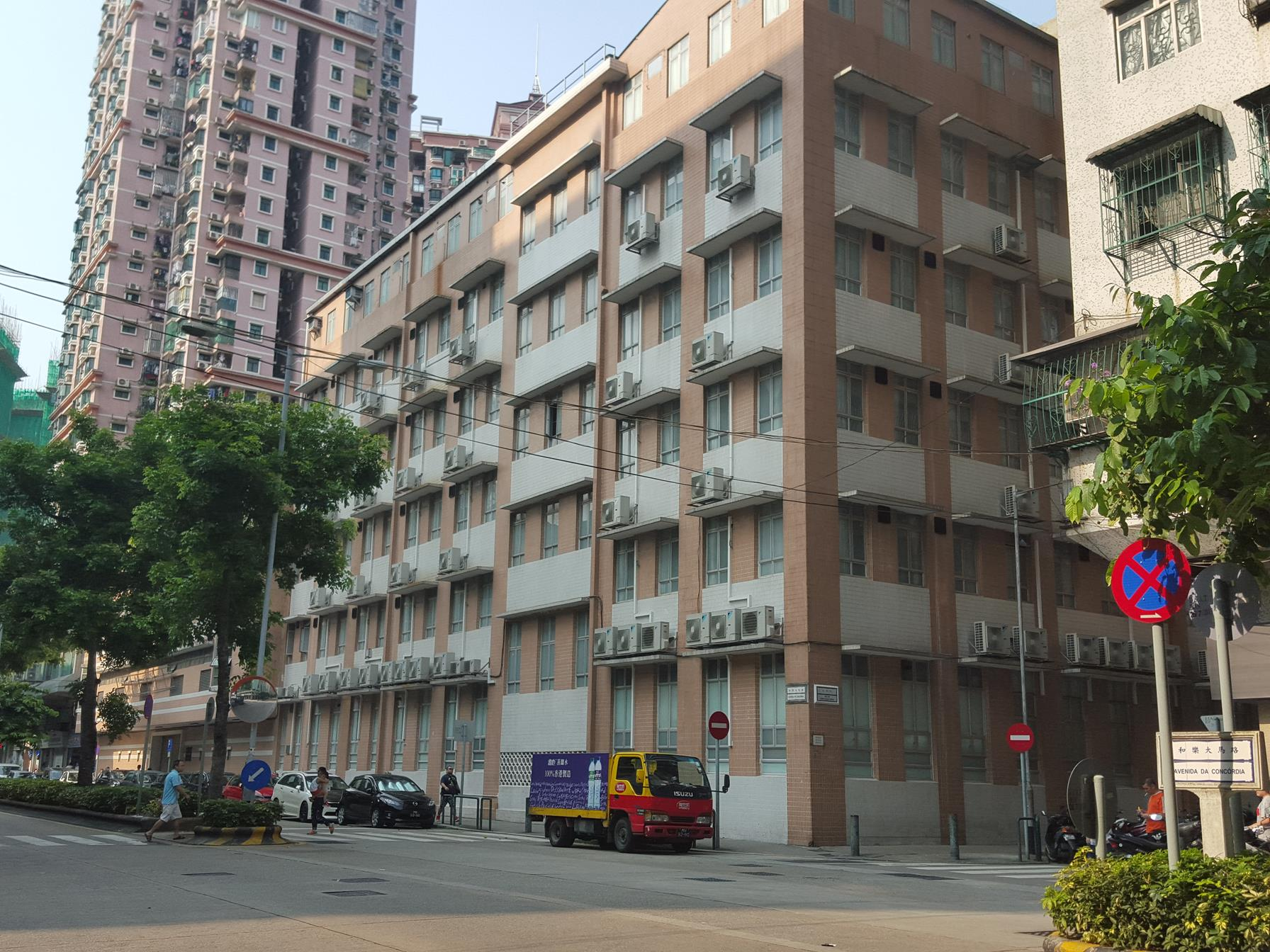 Category:The Workers' Children High School, Macau (high school)